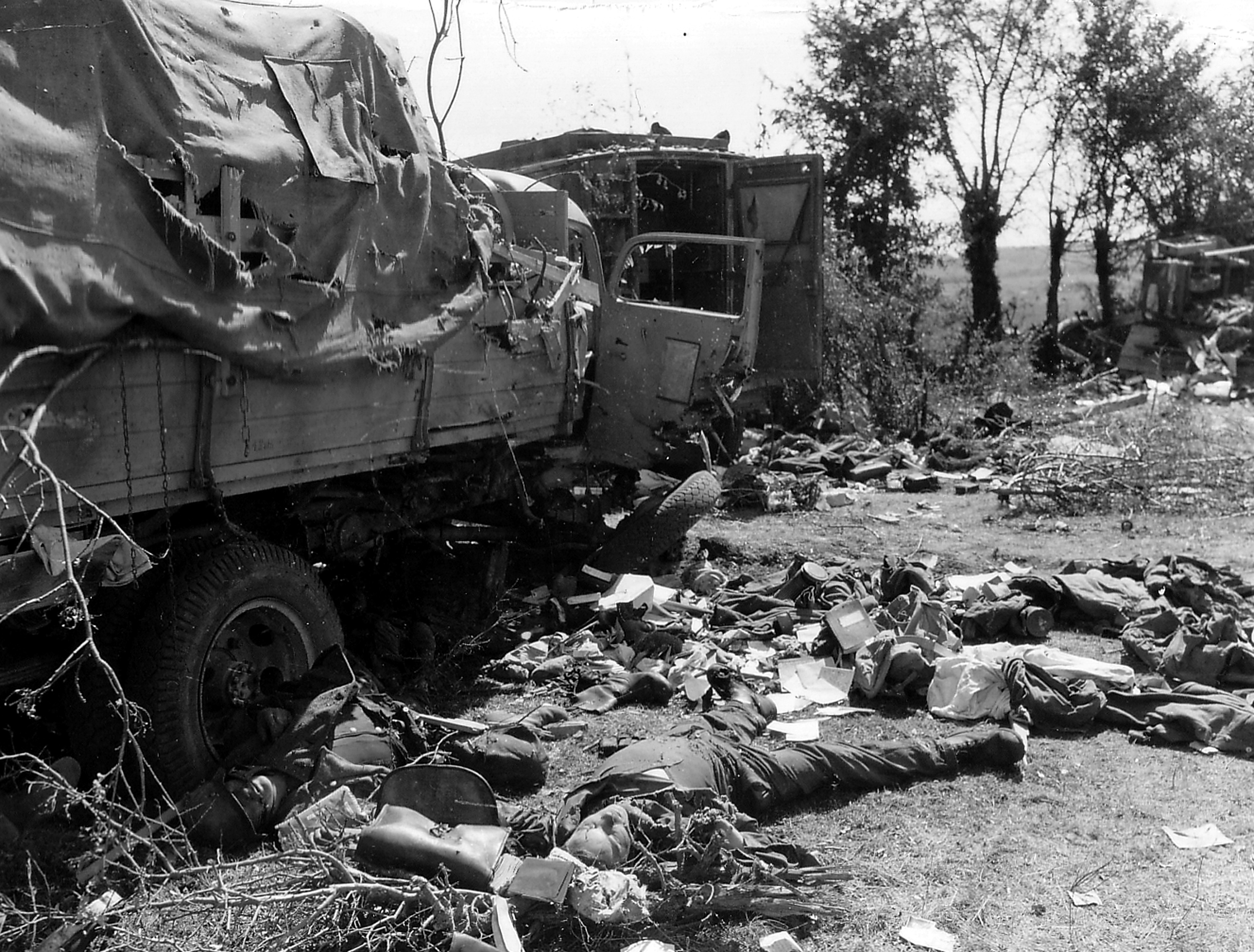 Dead German troops litter an ambushed convoy in Chambois